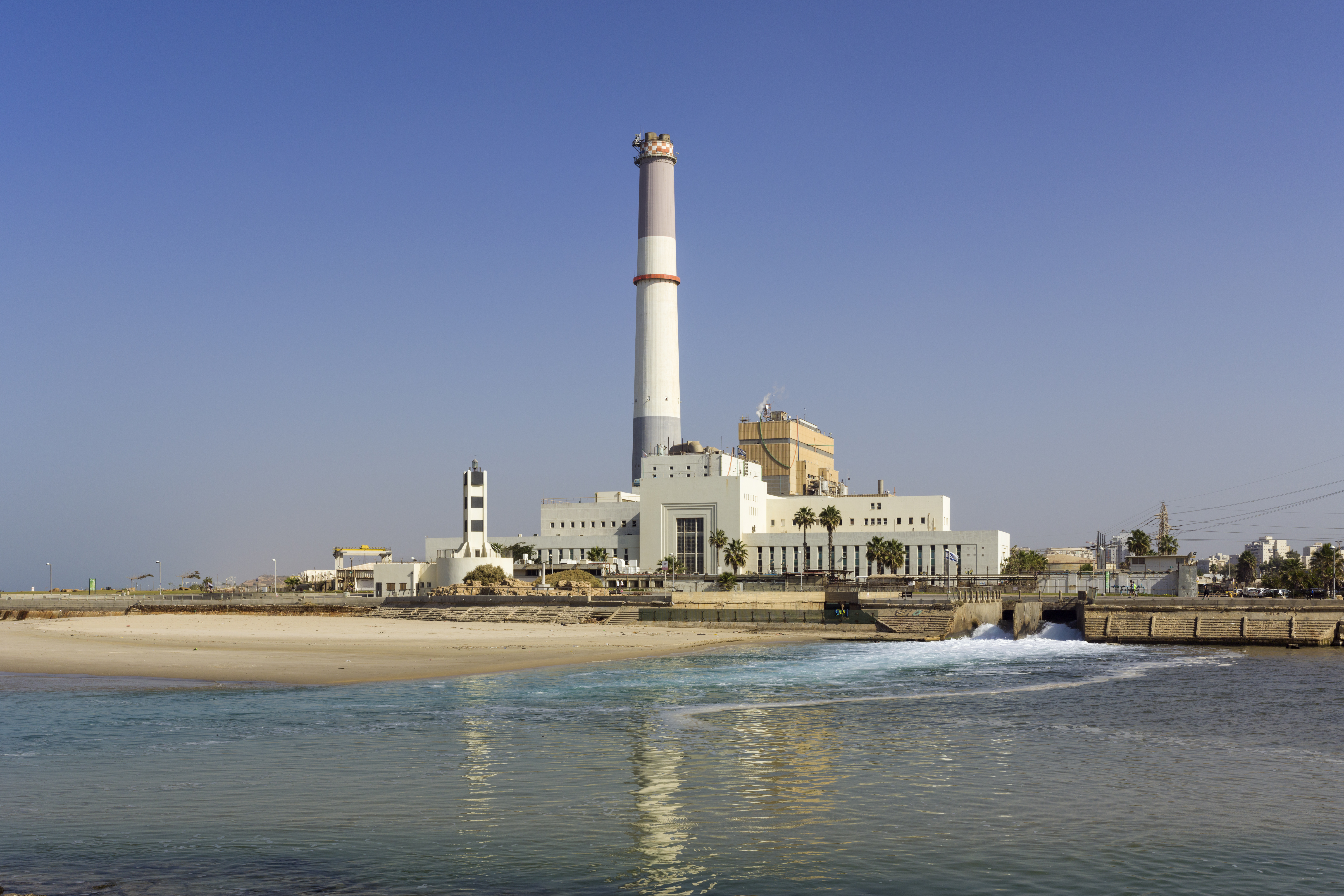 Reading Power Station, Tel Aviv, Israel.